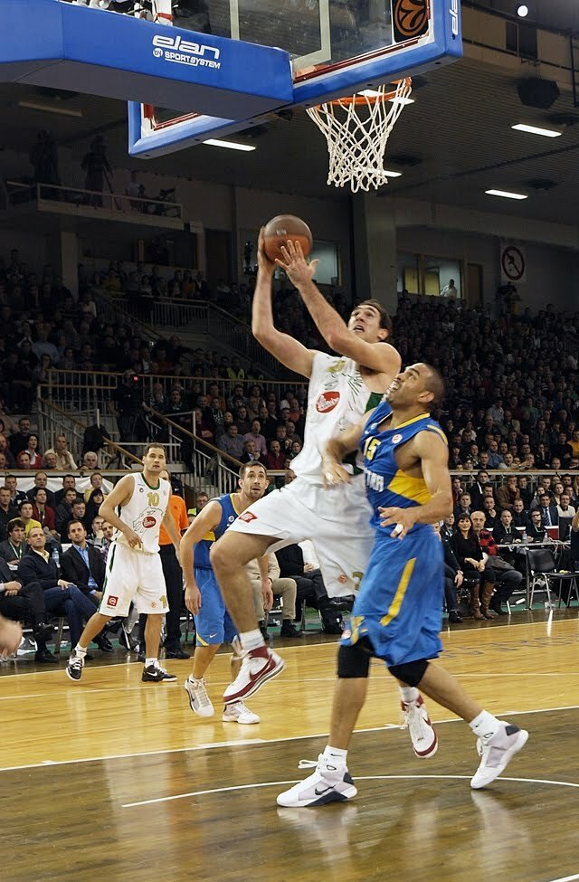 KK Union Olimpija vs Maccabi Tel Aviv in Hala Tivoli, Euroleague 2009/10